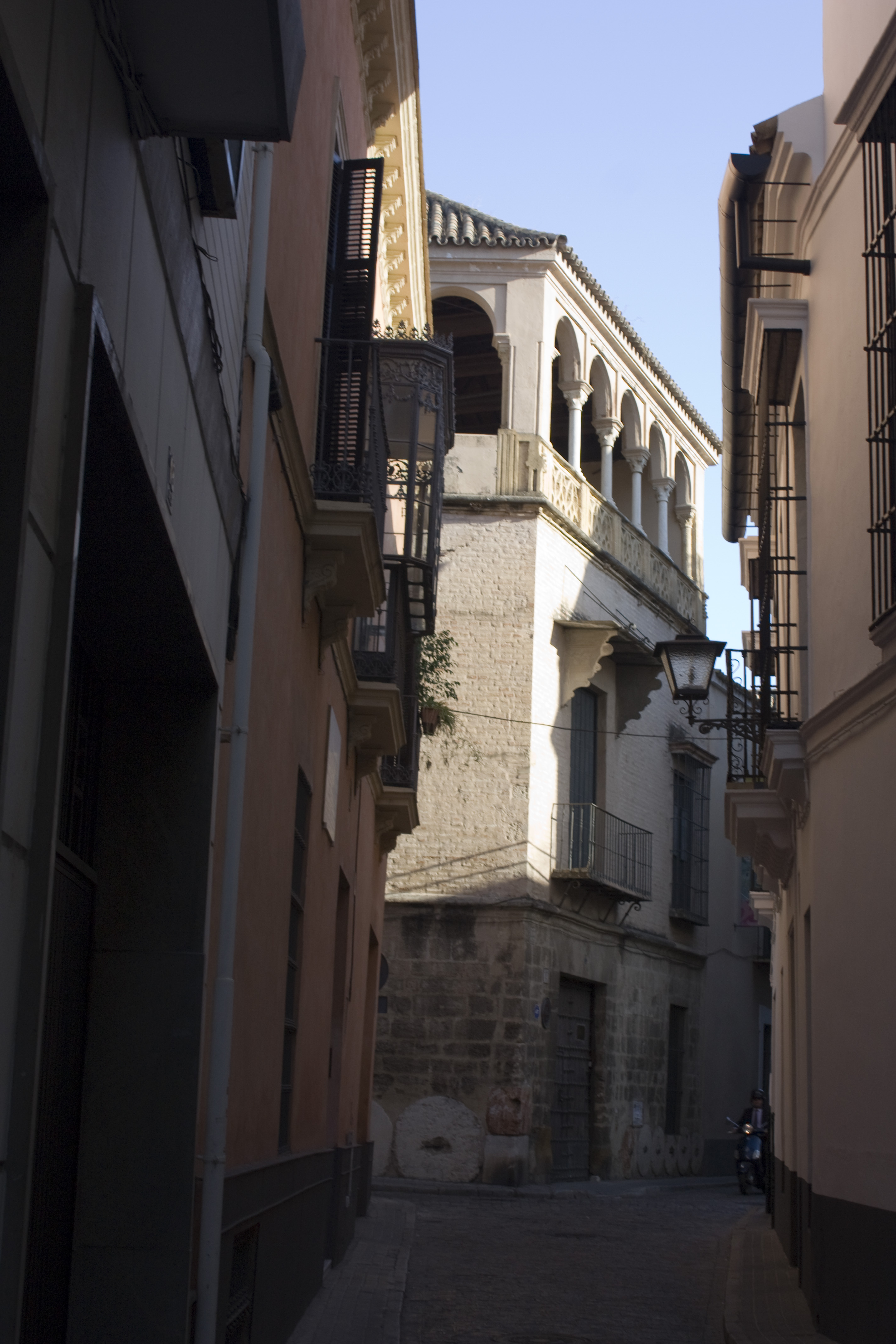 The House of the Pinelos is a mansion of the 16th century decorated with millstones.